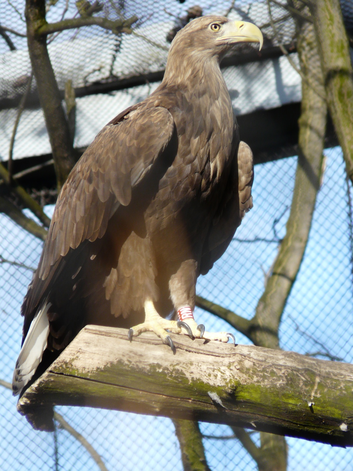 White-tailed Eagle (also known as the Sea Eagle, Erne (sometimes Ern), or White-tailed Sea-eagle) at Wrocław Zoo, Poland.